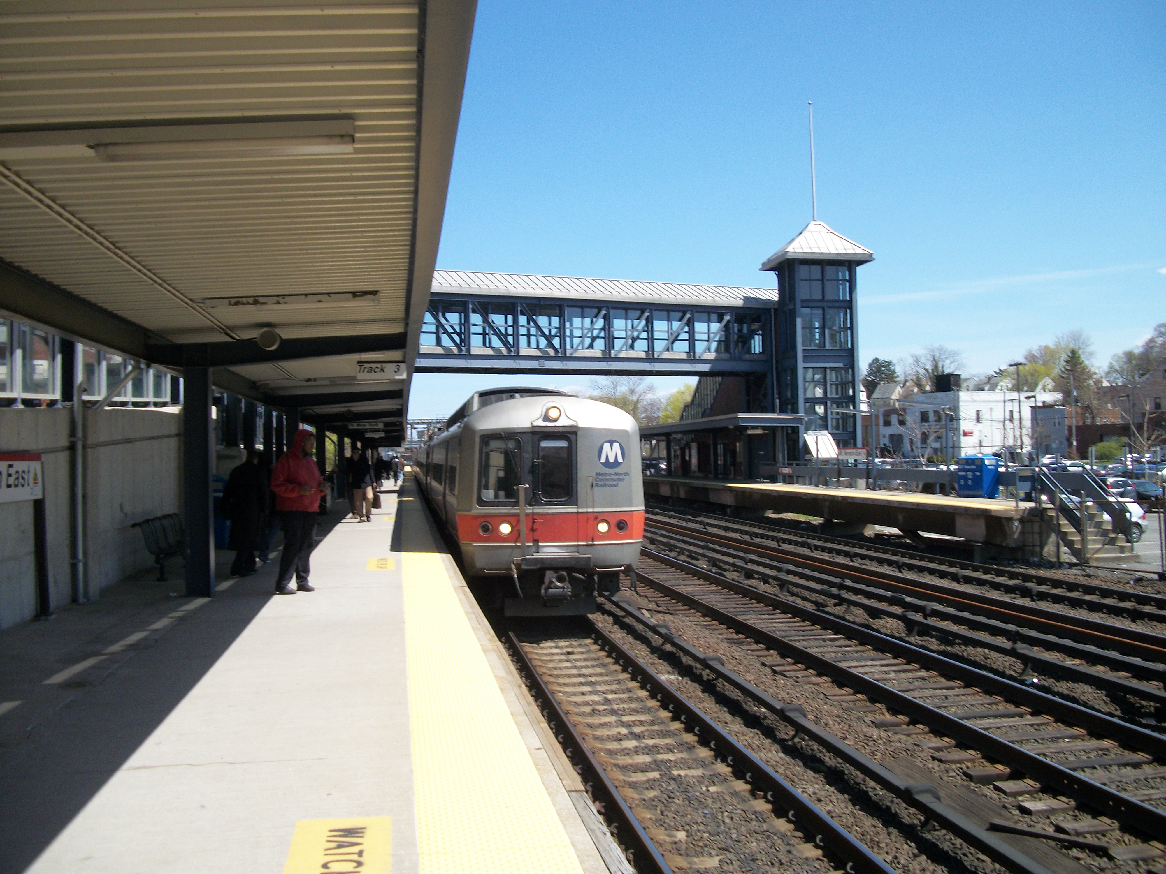 A Grand Central Terminal-bound Metro-North train arrives at Mount Vernon East (Metro-North station) in Mount Vernon, New York.